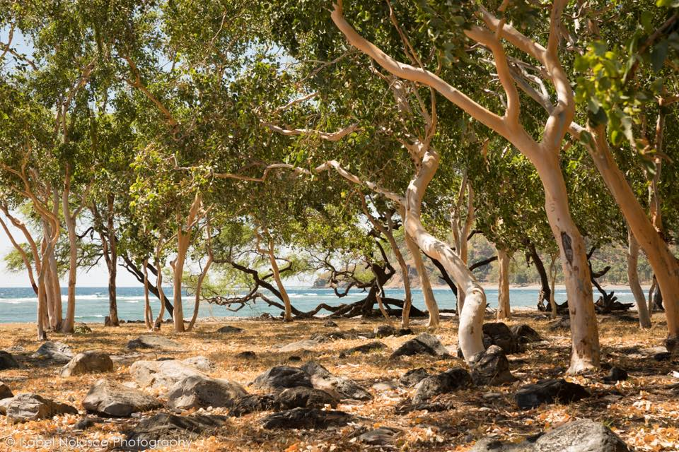 Timor-Leste is a paradise for divers and snorkelers. K41 or Km41 it's one of the most popular for diving. The shady beach, easy entry, proximity of the dive-site to the shore (a matter of metres) and the wall (with fish streaming up and down it) come slope further out plus shallow coral plateau on top are good reasons to go there. Although one of the most protected sites, currents sometimes swirl about in the small coral bay which is clearly visible in the satellite image. Location. Coordinates: 8°28'30"S 125°52'56"E, see Wikimapia Satellite Map. Drive 41 km from Dili and enter the first track at the grove of eucalyptus trees, just before a bay.